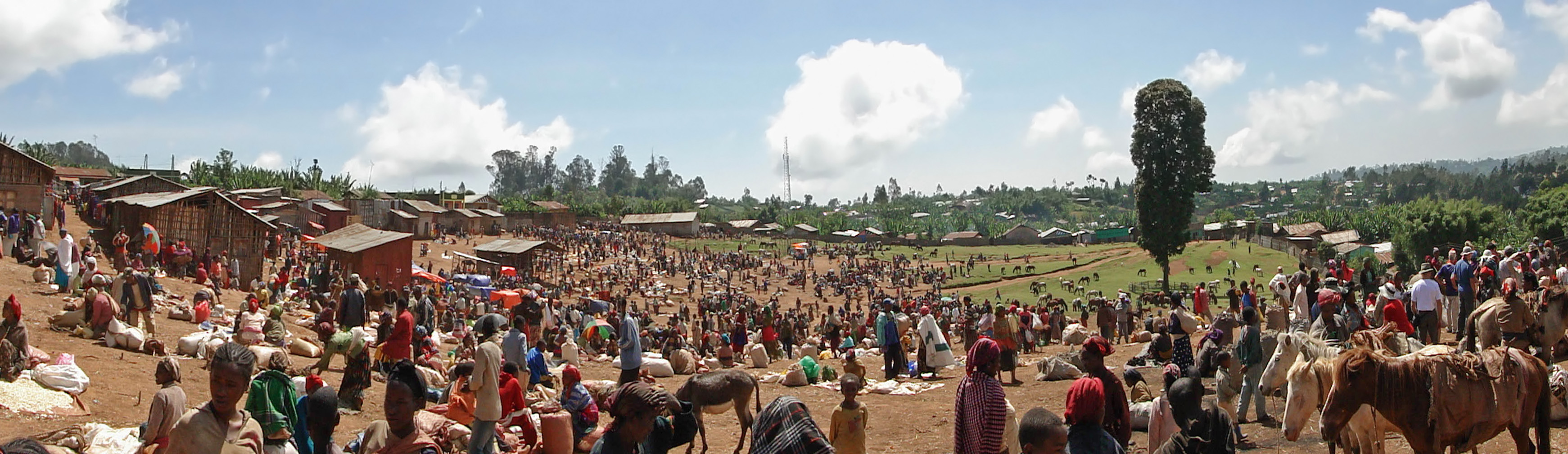 Chencha market, Ethiopia